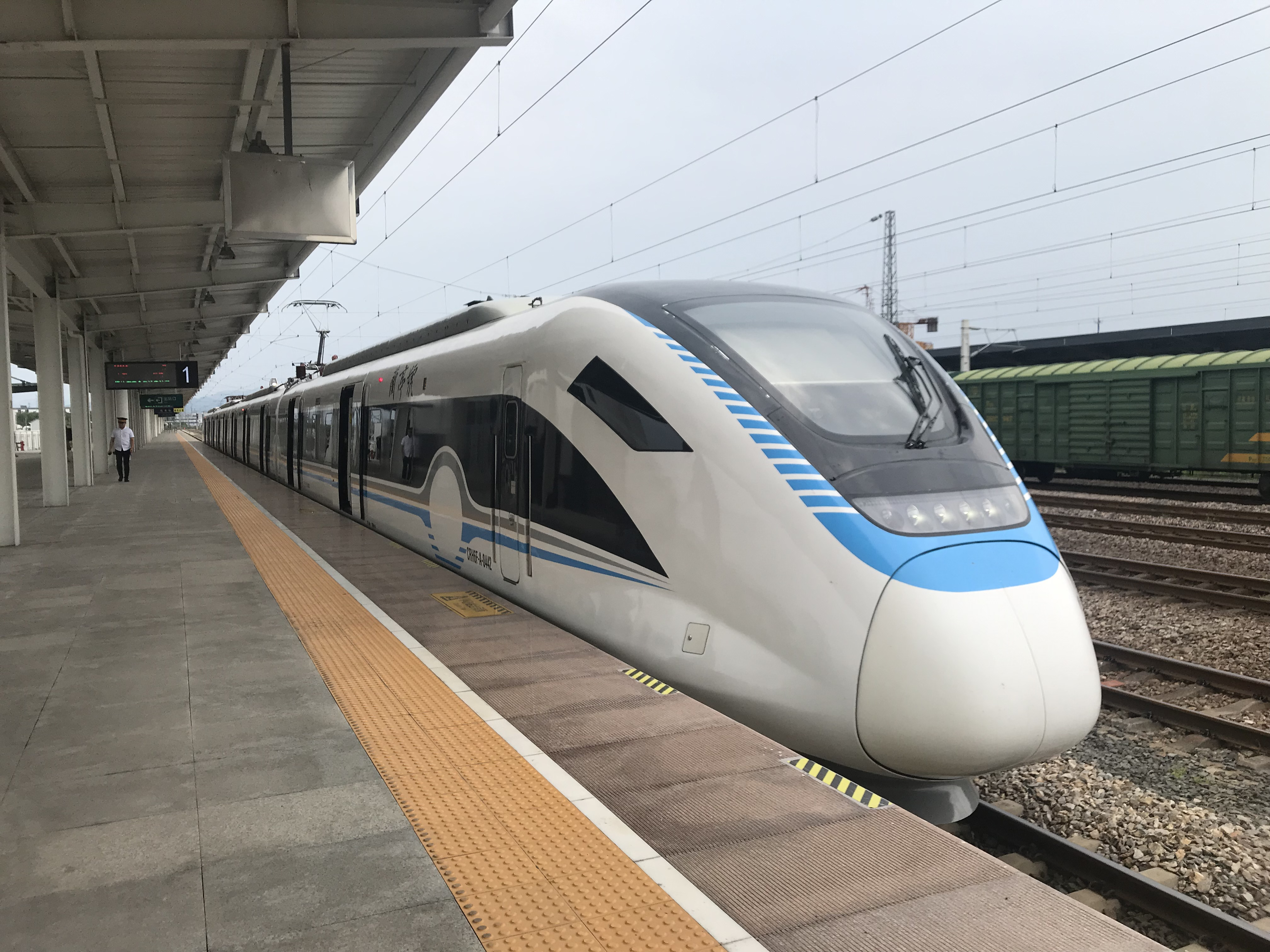 Was invited to leave by the station staff on the platform immediately...